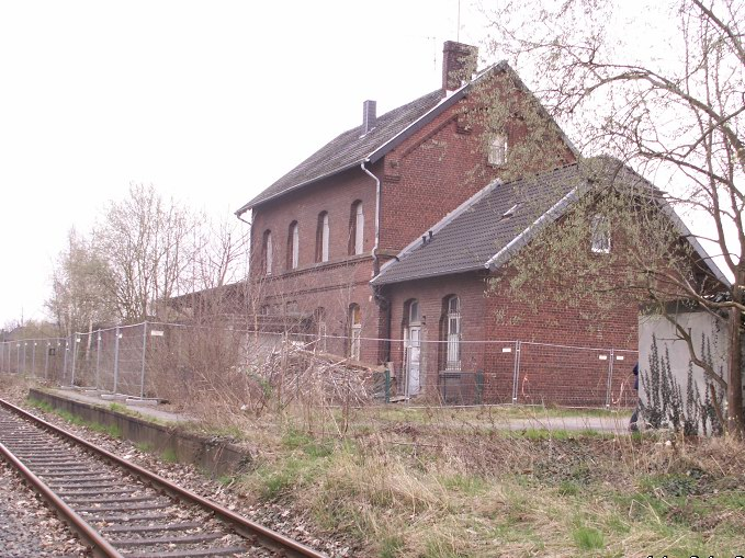 old station of Dremmen , near Aachen photographed be me , M.B.